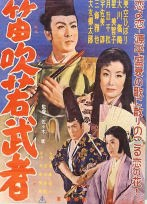 Movie poster for 1955 Japanese movie Fuefuki Wakamusha (笛吹若武者).